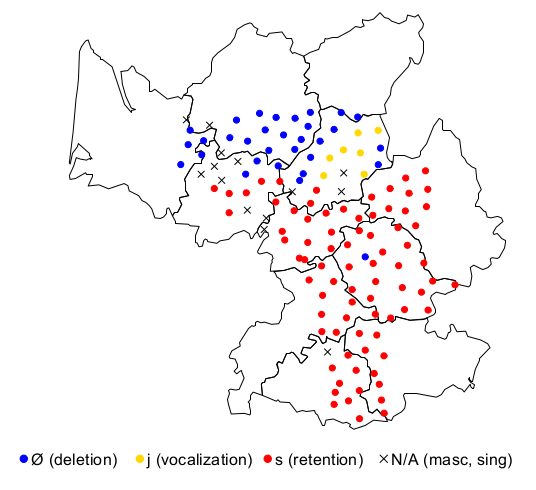 Prononciation of the final plural S in the word Canas